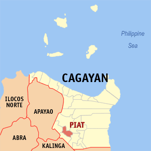 Map of Cagayan showing the location of Piat